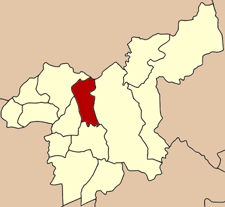 Map of Saraburi province, Thailand, highlighting Amphoe Chaloem Phra Kiat.